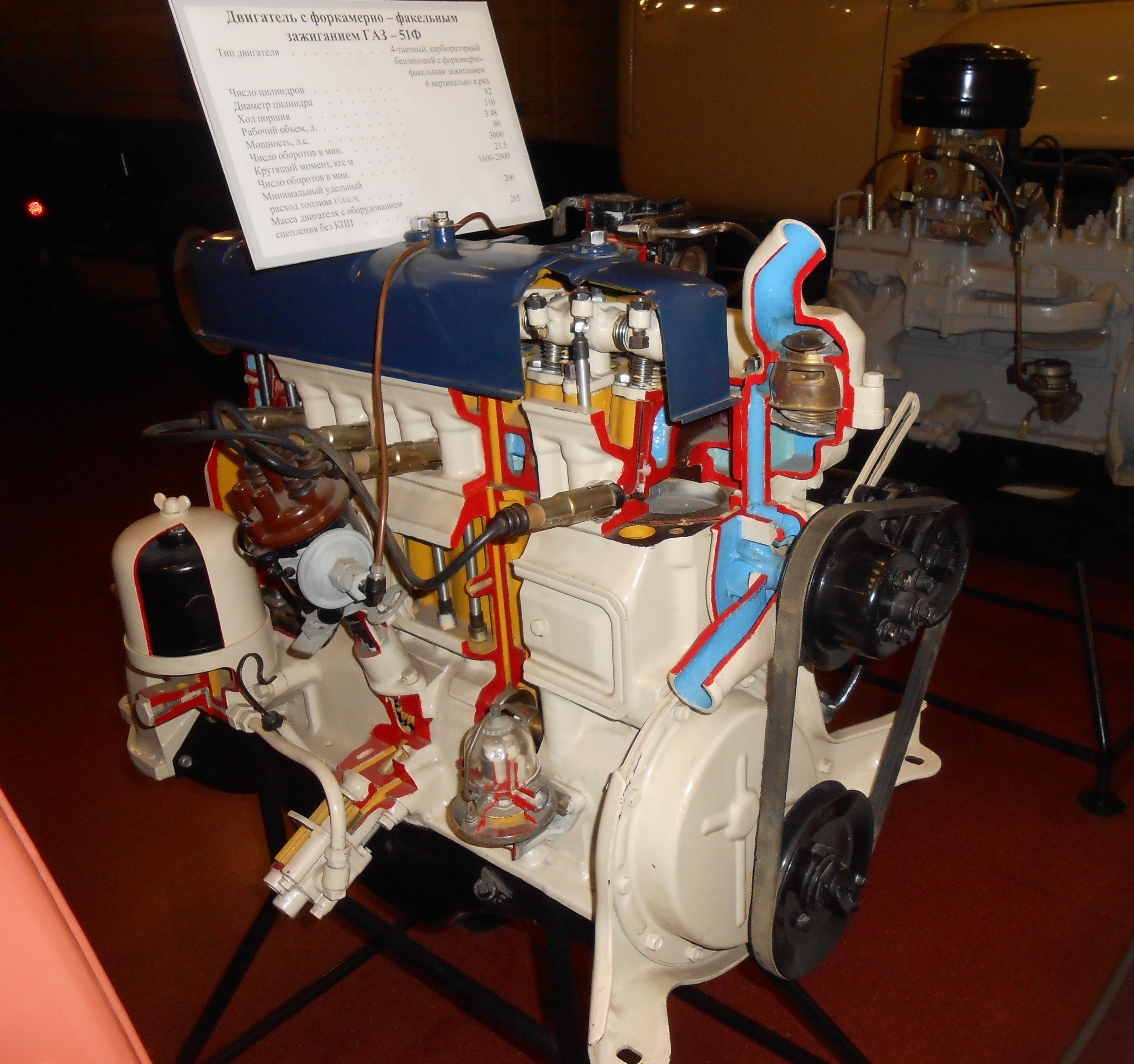 The GAS-engine 51Ф from the exposition of the Museum of the history of "GAZ", Nizhny Novgorod.